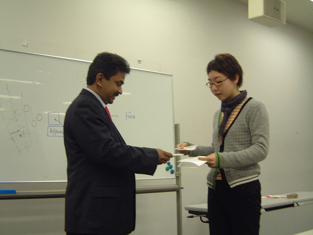 Dr. Vinya Ariyaratne receiving a donation from the students at the Faculty of Policy Studies, Chuo Univ., in Tokyo.